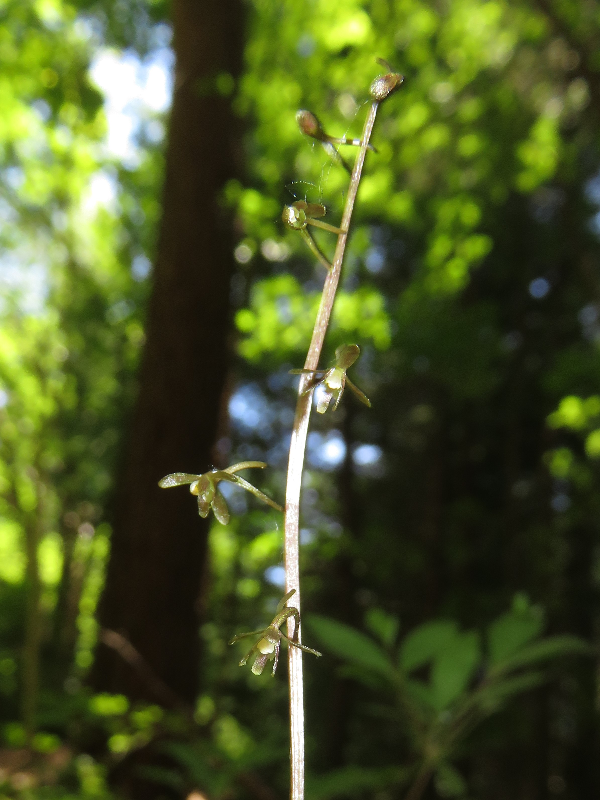 Tipularia japonica, Hama-dori area, Fukushima pref., Japan